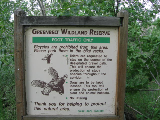 One of the many nature reserves incorporated by the Boise Greenbelt.